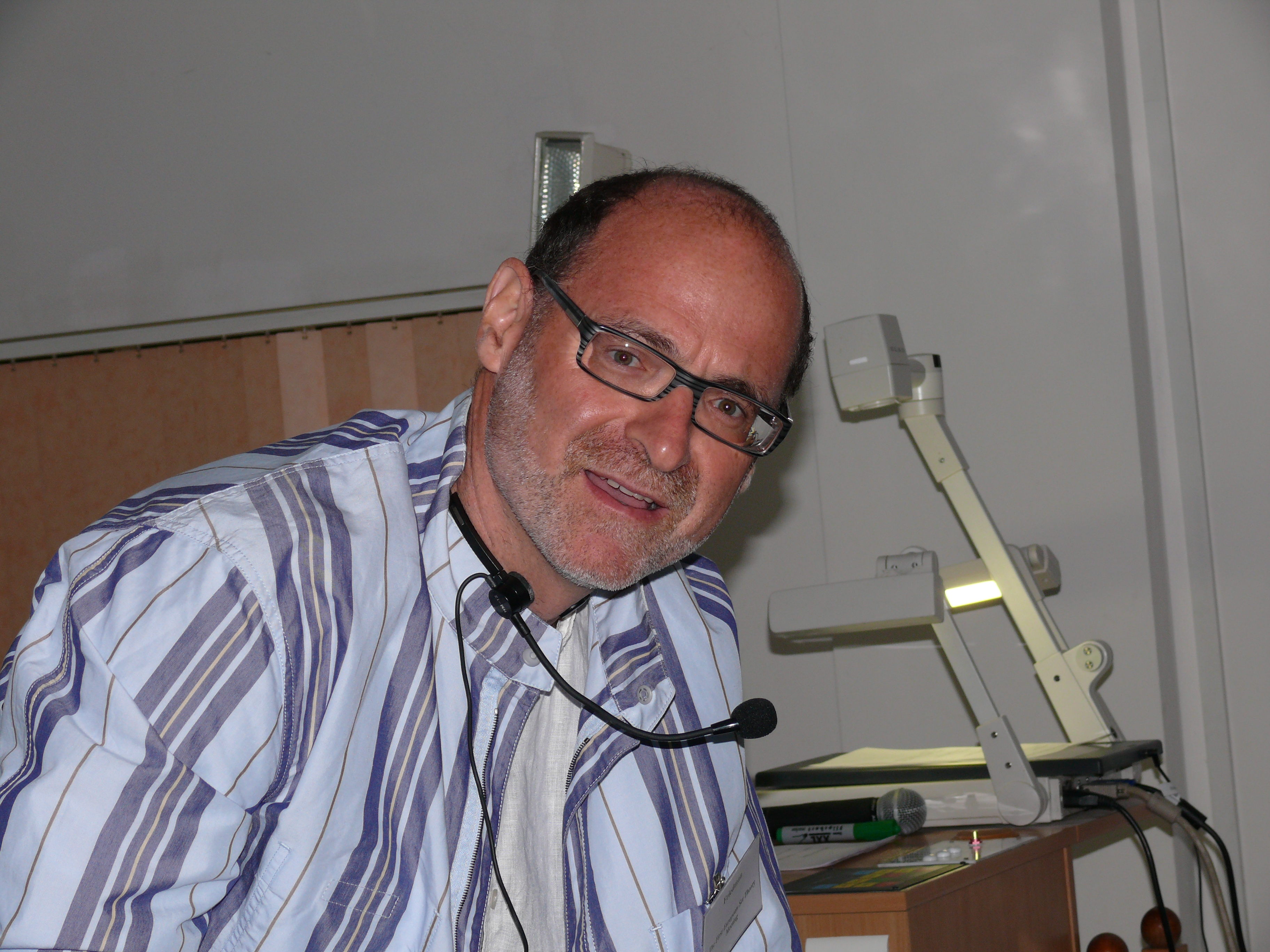 Prof Sy Friedman during The First European Set Theory Meeting, Będlewo, Polonad, July 2007